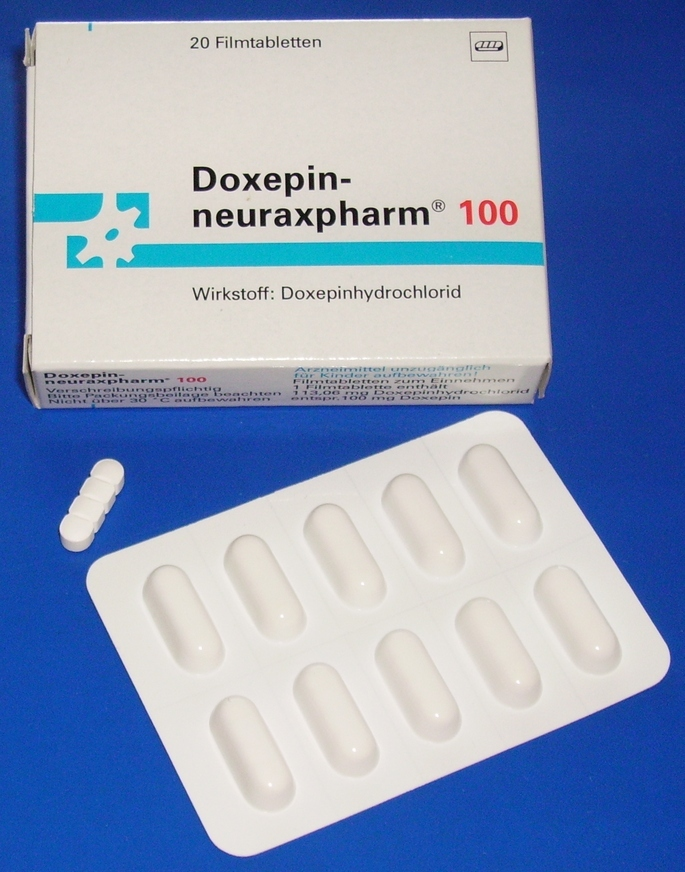 Doxepin film-coated tablets